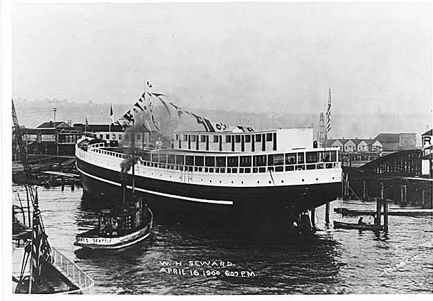 Caption on image: W.H. Seward, April 16 1900 6:07 P.M. Peiser . Peiser 10061 Subjects (LCTGM): Moran Brothers Company (Seattle, Wash.)--Facilities; Launchings--Washington (State)--Seattle; Ships--Washington (State)--Seattle